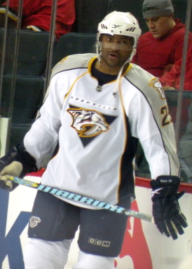 Nashville Predators forward Joel Ward prior to a National Hockey League game against the Calgary Flames.